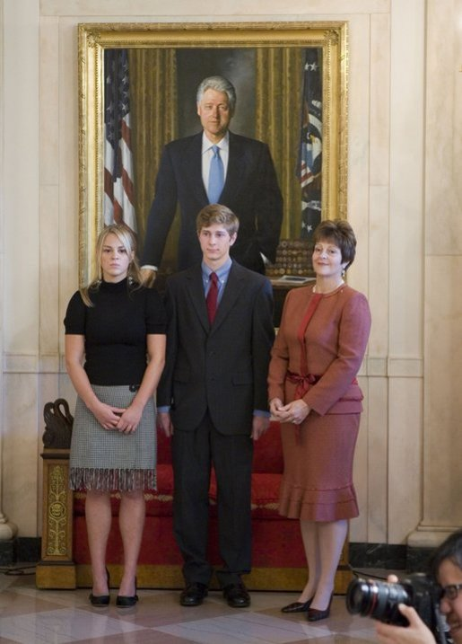 The family of Judge Samuel A. Alito, Jr., look on Monday, Oct. 31, 2005, as their father is nominated by President George W. Bush for Associate Justice of the U.S. Supreme Court. From left: daughter Laura, son, Phil, and wife, Martha.